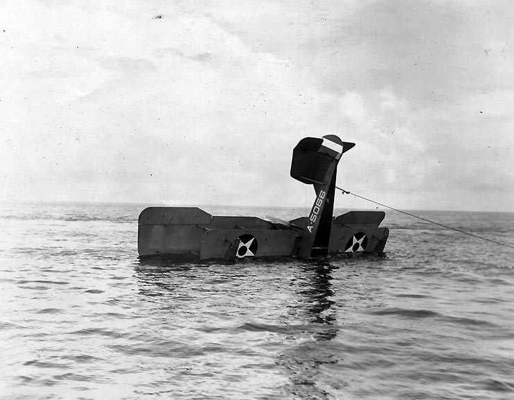 Aeromarine 40 flying boat wrecked in the Gulf of Bacabano, Cuba. This aircraft, whose Aircraft Record card states that it had been converted to a Model 41 type, was assigned to assist USS Hannibal in survey work. It hit something on the water or broke a hole in its hull by hitting a wave, leaving the plane's wings and hull unfit for further use. It was subsequently stricken from the list of Navy aircraft. Pilot was Lieutenant (Junior Grade) John H. Hykes, USN.